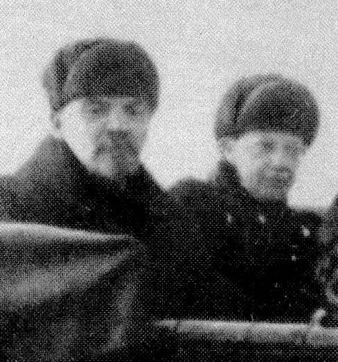 V.I. Lenin, N.K. Krupskaya in a car after the finish of a Red Army parade at Khodynka Field in Moscow.